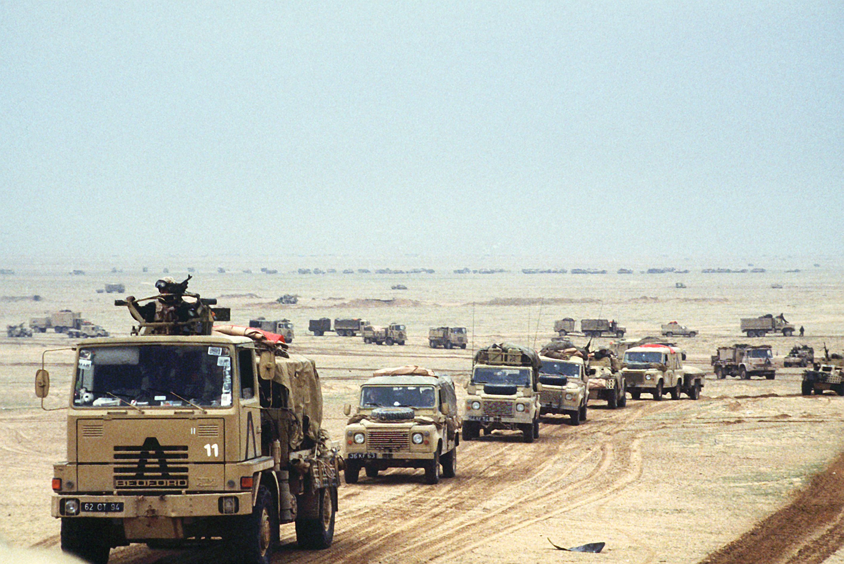 A Bedford Tm 4x4 16,000-pound truck heads a convoy of Land-Rover One Ten 4x4 light vehicles as they move out during Operation Desert Storm.